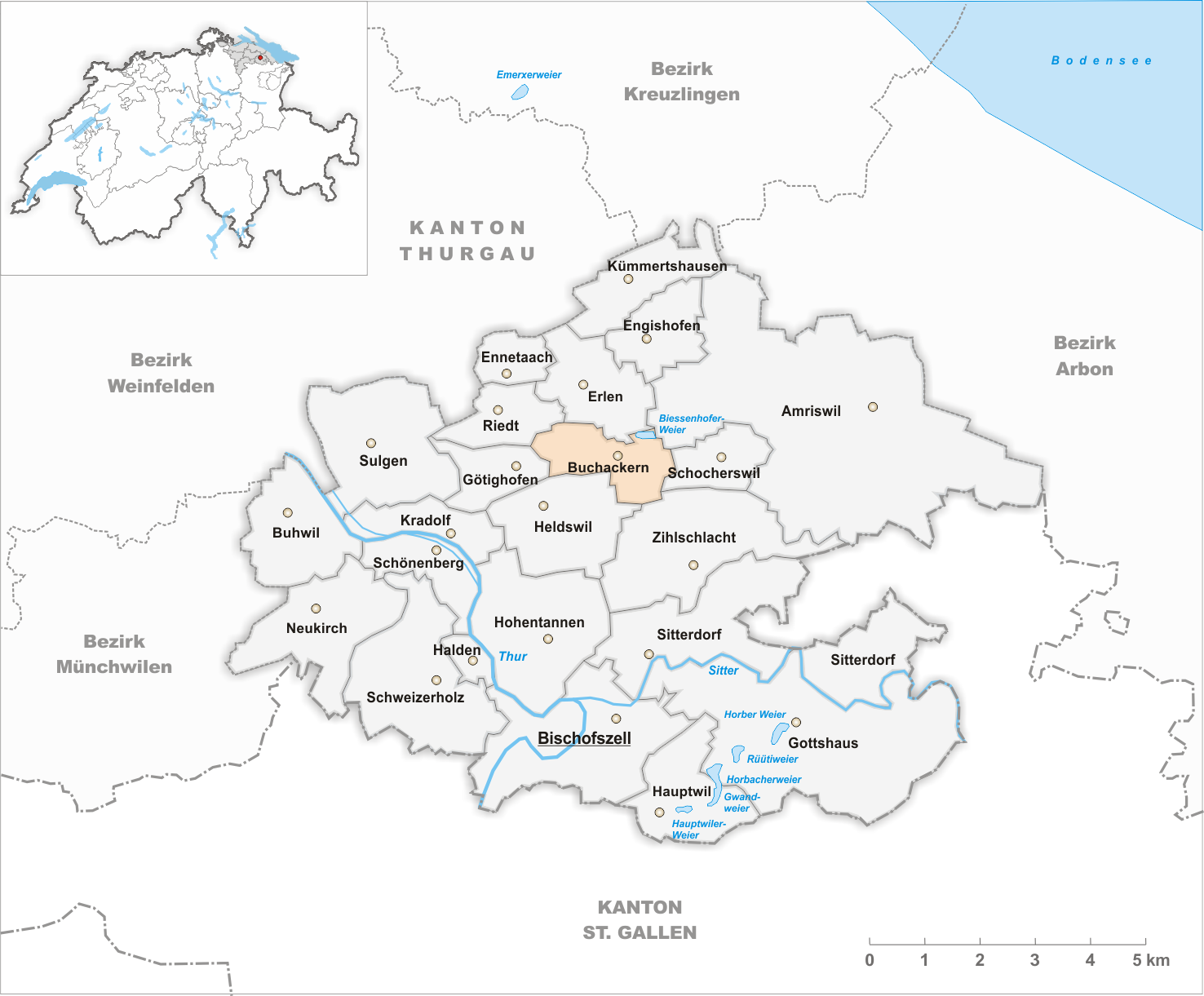 Municipality Buchackern